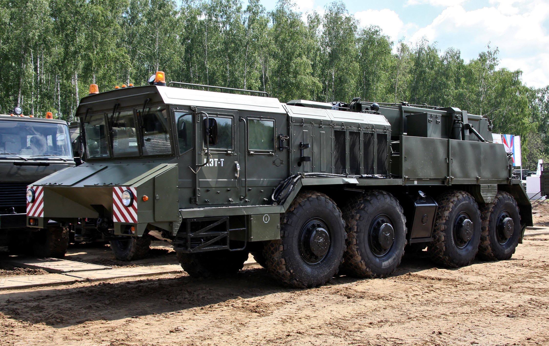 The wheeled recovery vehicle KET-T on KZKT-74281-012-chassis at Bronnitsy test rage.